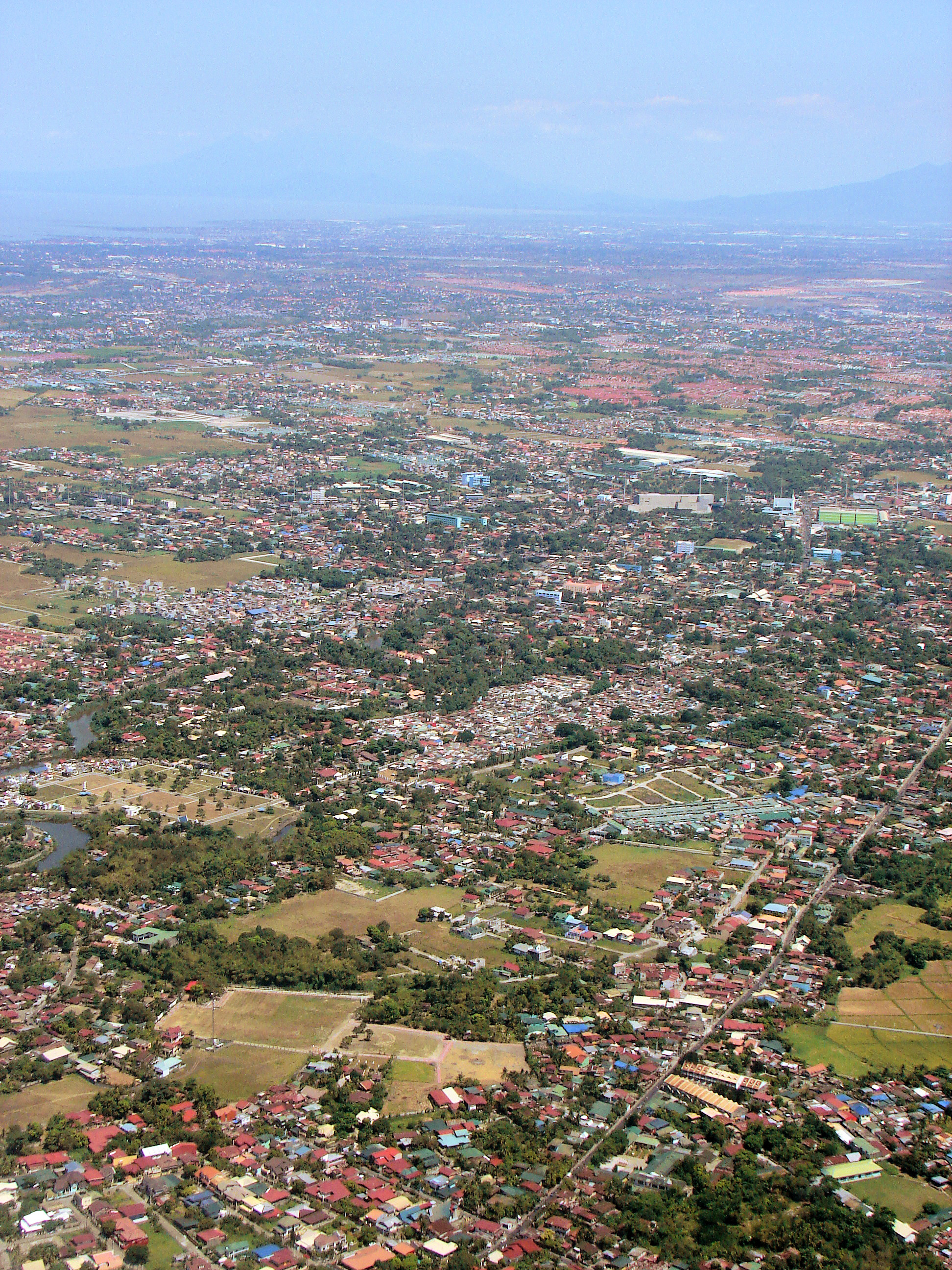 Aerial view of Imus, Cavite, Philippines. Located on center right is Nueno Avenue, the main street that leads to the poblacion (town center) of Imus with its Cathedral and belfry (also on center right). In the foreground is Medicion I St. (corner of Toclong II and Medicion II) that leads to Binakayan, Kawit, Cavite.